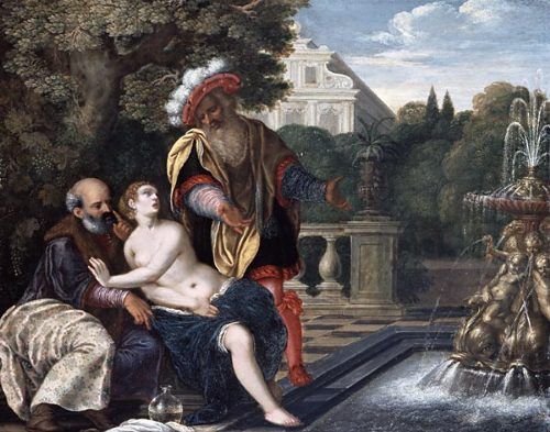 Susanna and the Elders